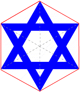 Star of David